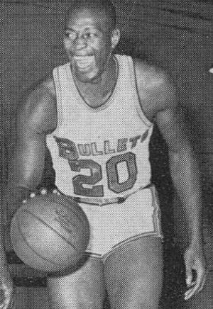 From left to rightː Rod Thorn, Charles Hardnett, Walt Bellamy, Gus Johnson and Terry Dischinger